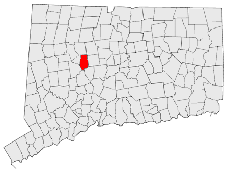 Locator map for Plymouth, Connecticut